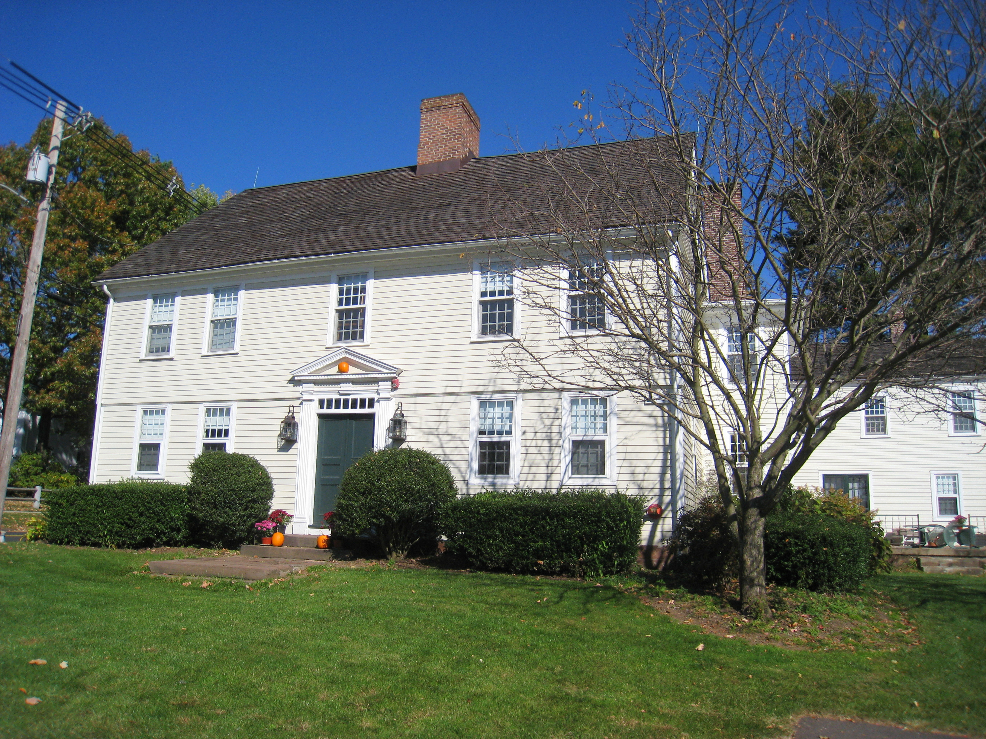 Homestead (dorm), Choate Rosemary Hall, Wallingford, Connecticut, USA. Built in 1774.